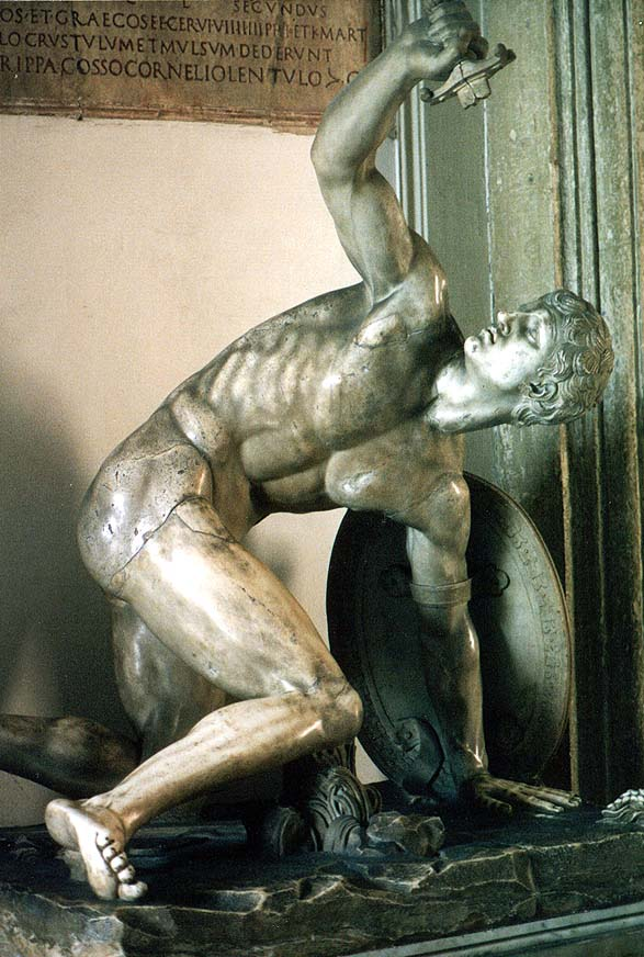 Only the torso is antique; it may be a copy of Myron's Discobolus. Was restored as a wounded warrior, on the model of the Pergamene statues known as the "Little Barbarians", by French sculptor Pierre-Étienne Monnot (1658-1733).